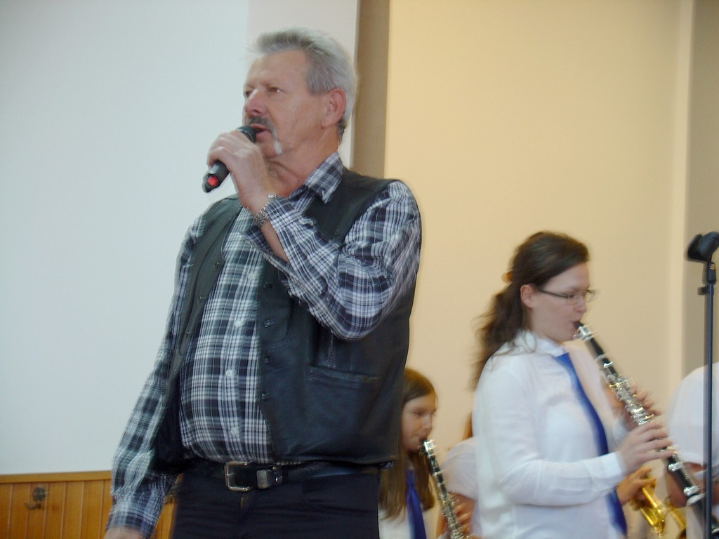 GUSTI DRAKSAR DEKANOVEC